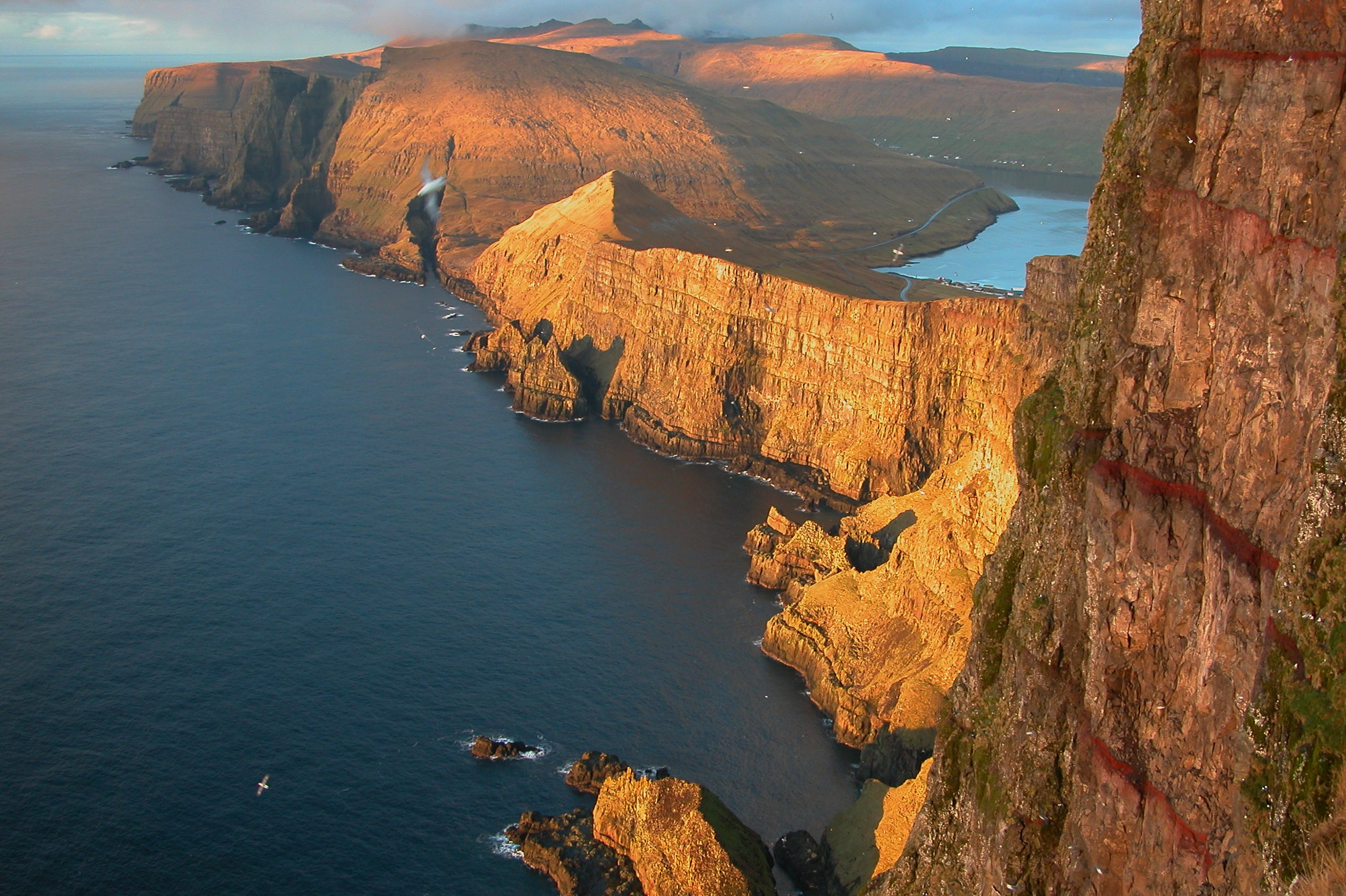 Westcoast of Suðuroy. seen from Beinisvørð